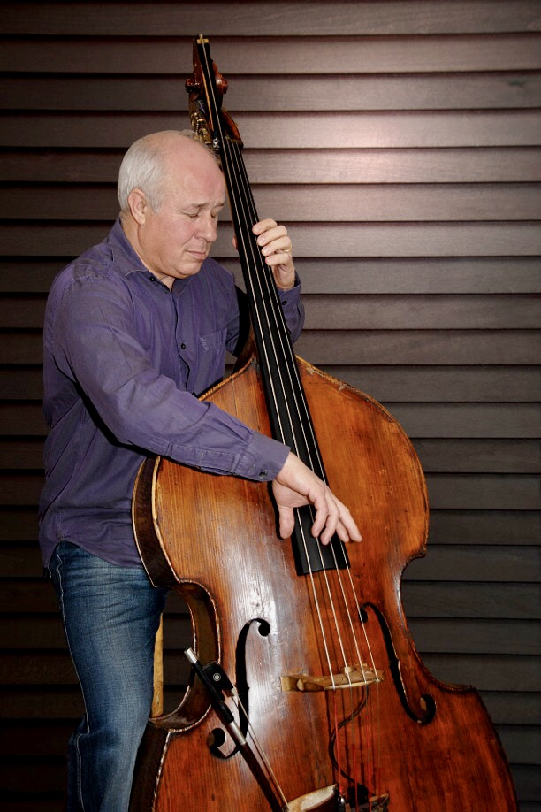 ewfuhocnsaklmx